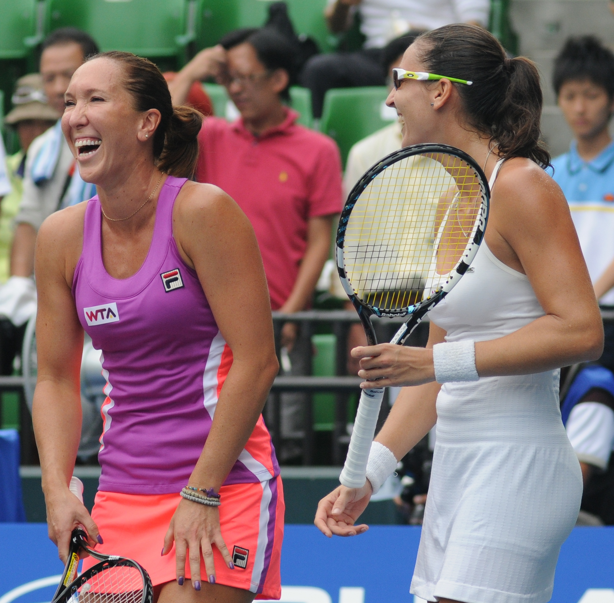 Jelena Janković (left) and Arantxa Parra Santonja (right) at the 2014 Toray Pan Pacific Open